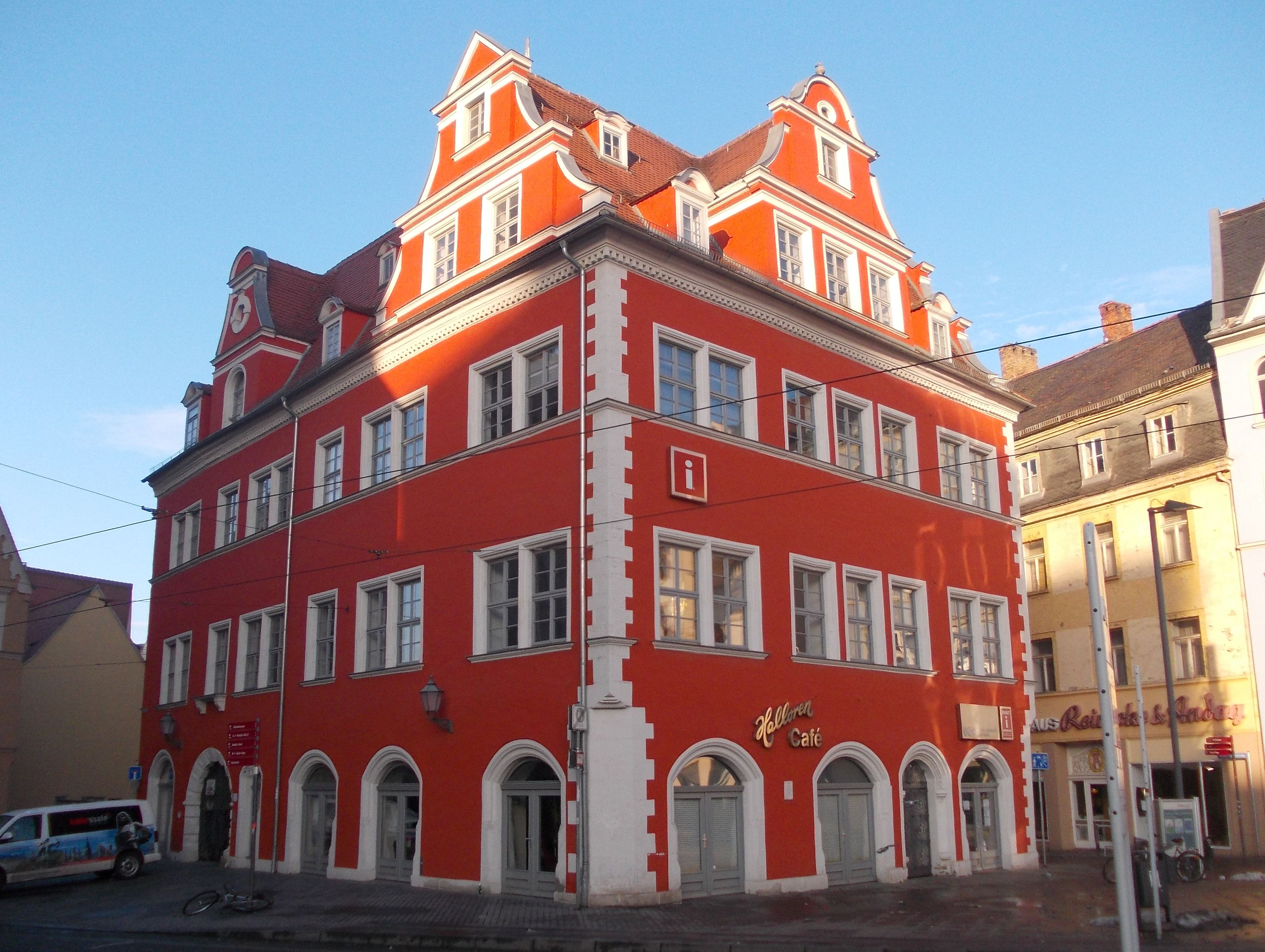 Marktschlösschen, a Renaissance building in the market square of Halle/Saale (Saxony-Anhalt) with the tourist information centre and a café